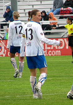 Kristine Lilly of the (WPS) Womens Professional Soccer Club, Boston Breakers.